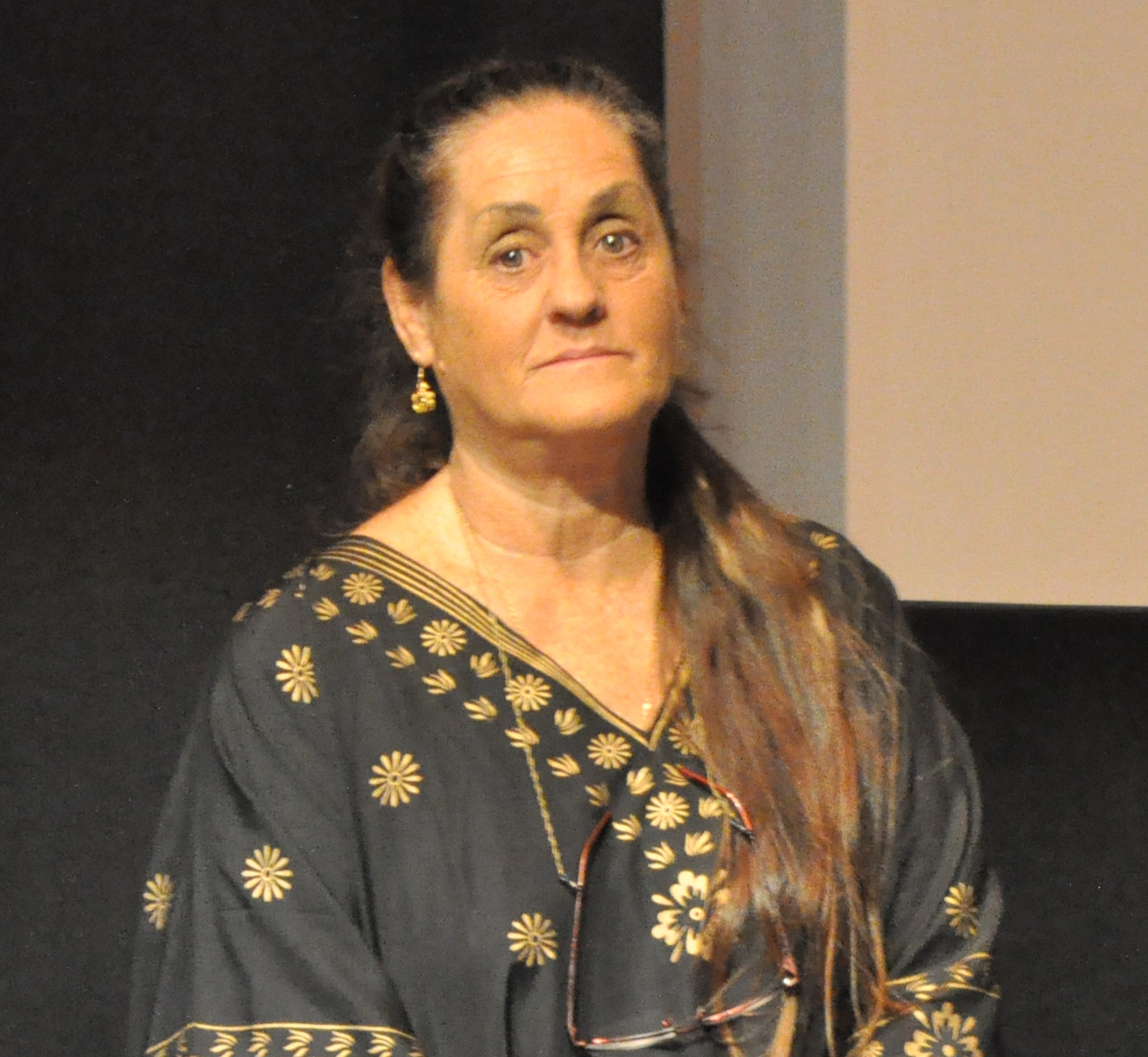 Source Family archivist Isis Aquarian appearing at Everett Performance Hall (Everett, Washington) as part of the Seattle International Film Festival's showing of Jodi Wille and Maria Demopoulos's documentary The Source, about the Source Family.